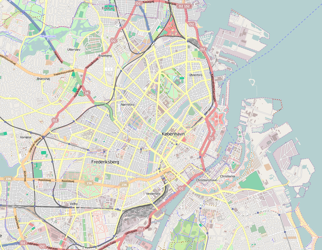 Map of Copenhagen Geographic limits of the map: N: 55.728° N S: 55.651° N W: 12.475° E E: 12.652° E